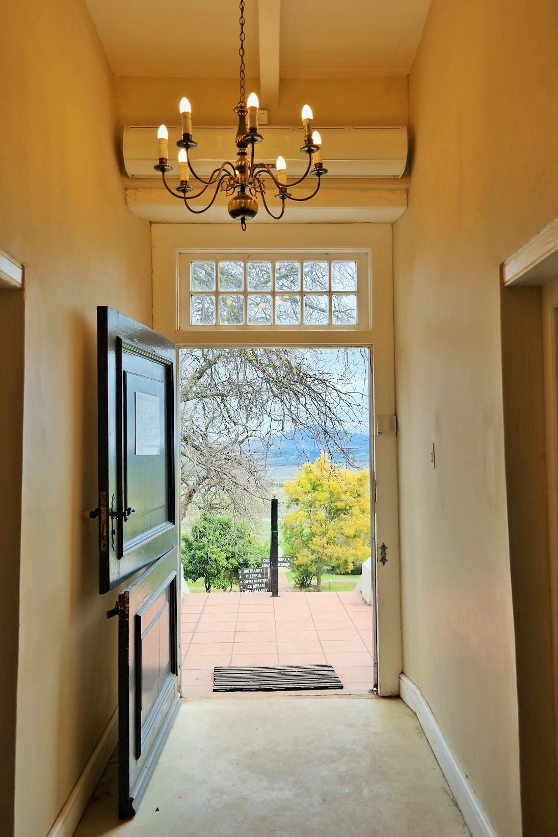 Paarl's surrounding is shaped by a significant mountain range and numerous wine yards.